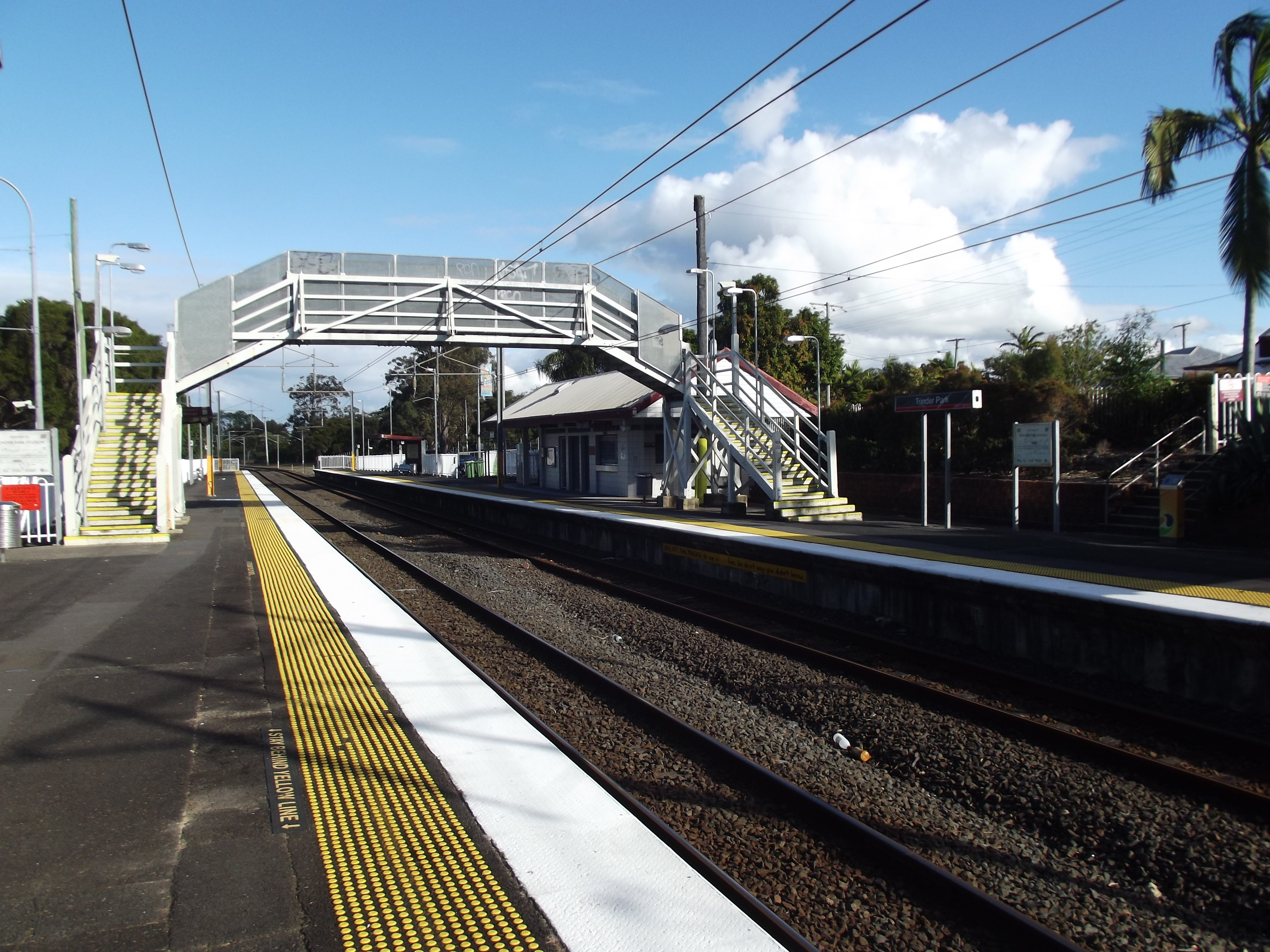 A photo of the Trinder Park railway station, operated by TransLink, located in Logan City, Australia.